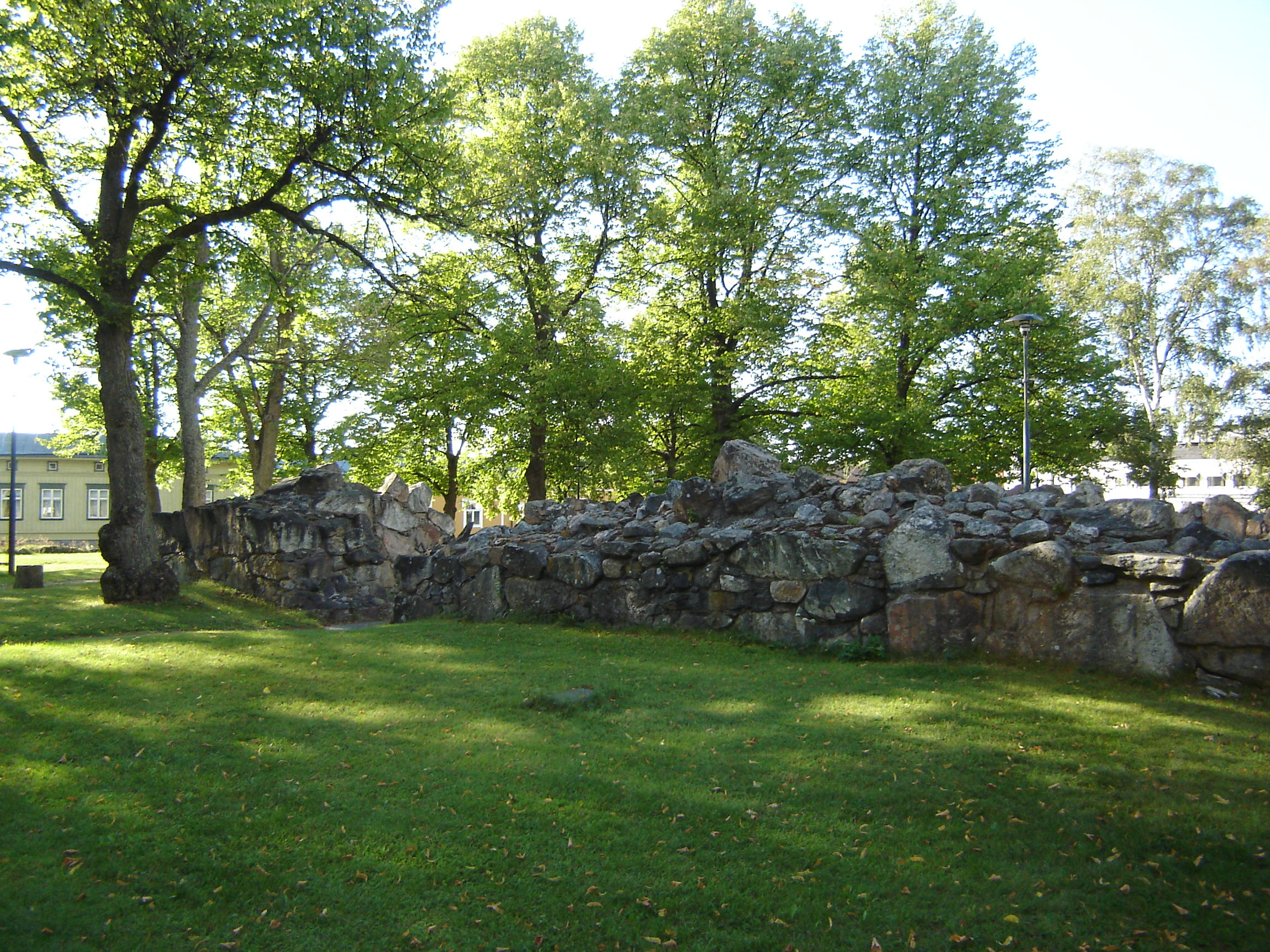 Ruins of the Holy Trinity Church of Rauma, Finland (destroyed by a fire in 1640)